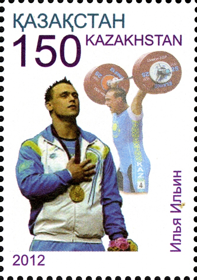 Stamps of Kazakhstan, 2013